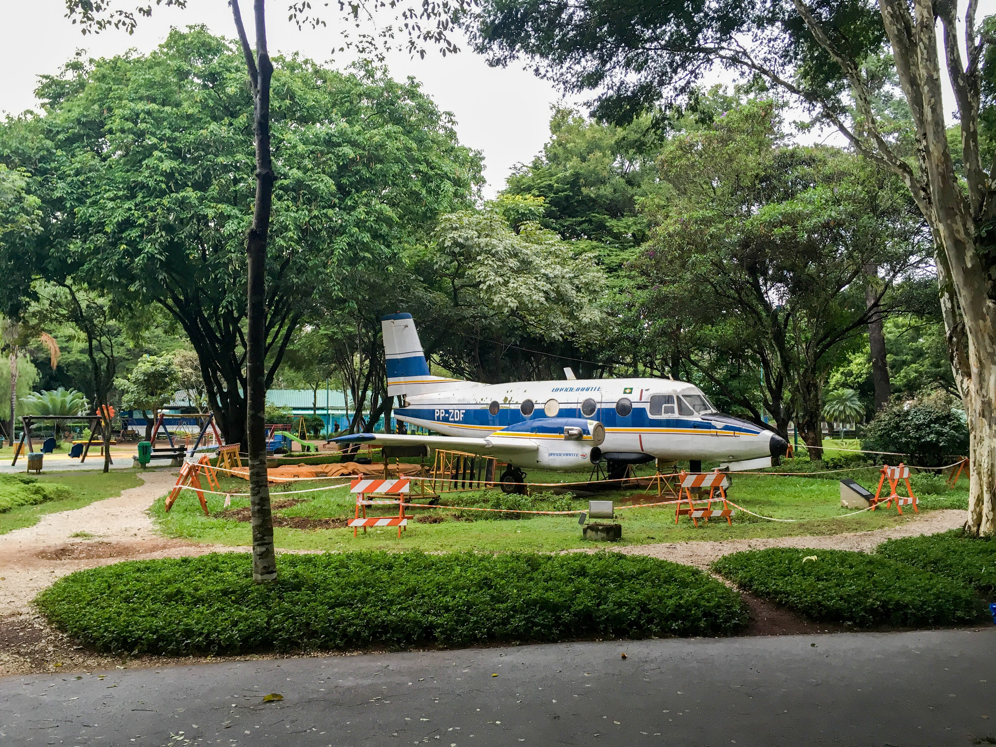 Parque Santos Dumont, São José dos Campos, Brazil.